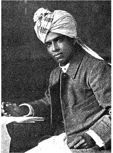 Amrit Keshav Nayak was an Indian theatre personality. (Died 1907) Note: Person in image died in 1907 so image must be in Public domain.